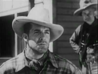 Reed Howes in The Dawn Rider, a 1935 film by Robert N. Bradbury